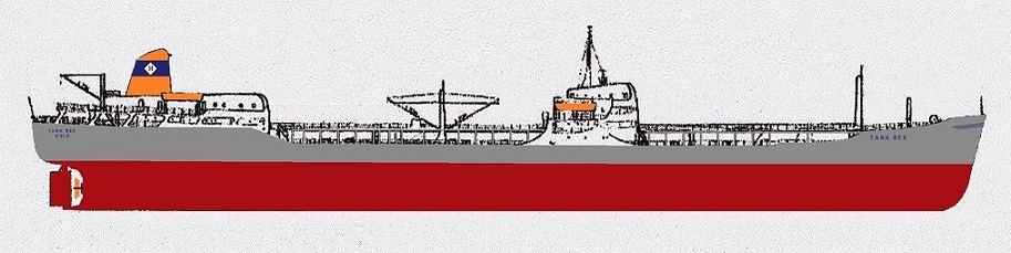 Oil Tanker ship